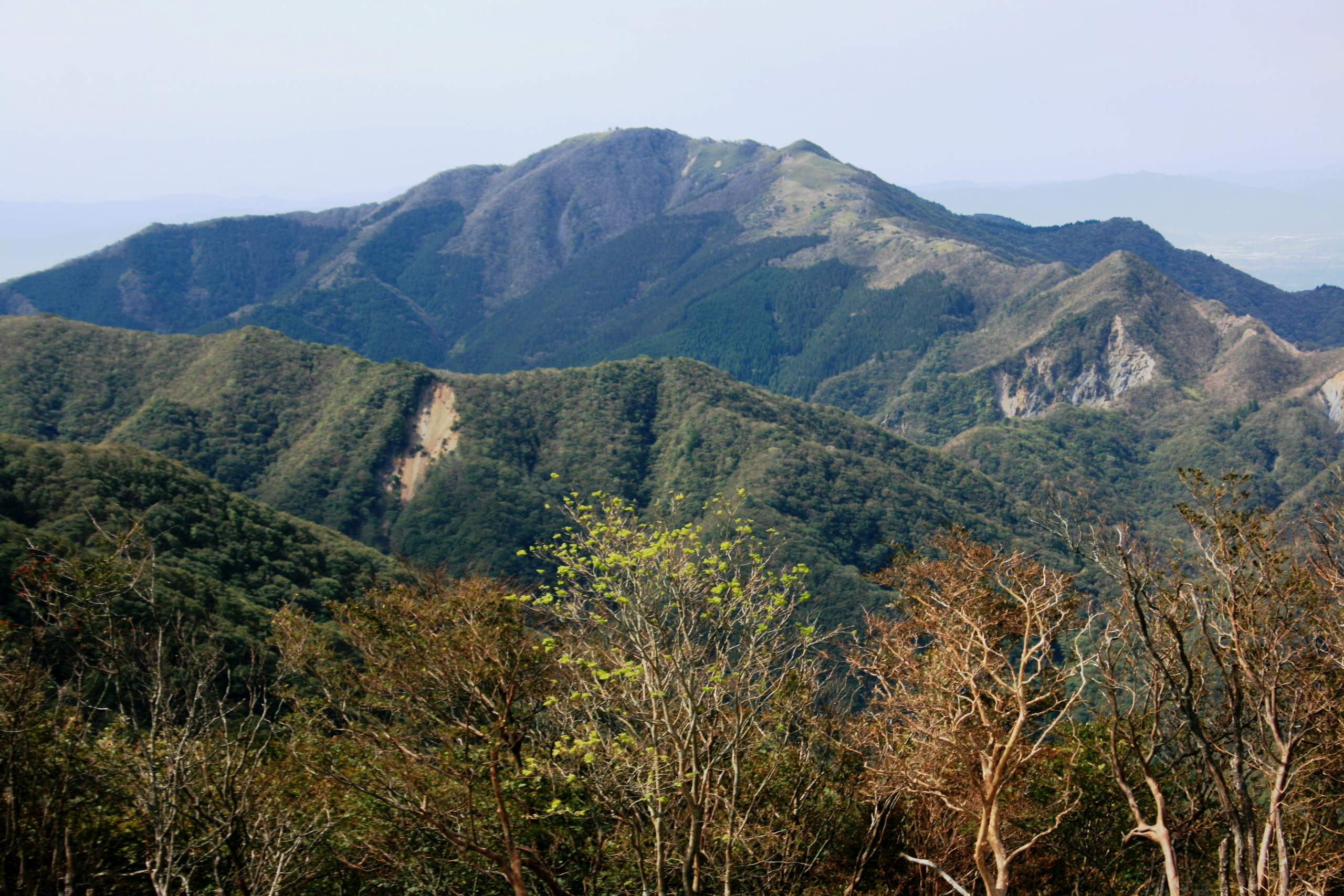 Mount Watamuki from Sugitoge